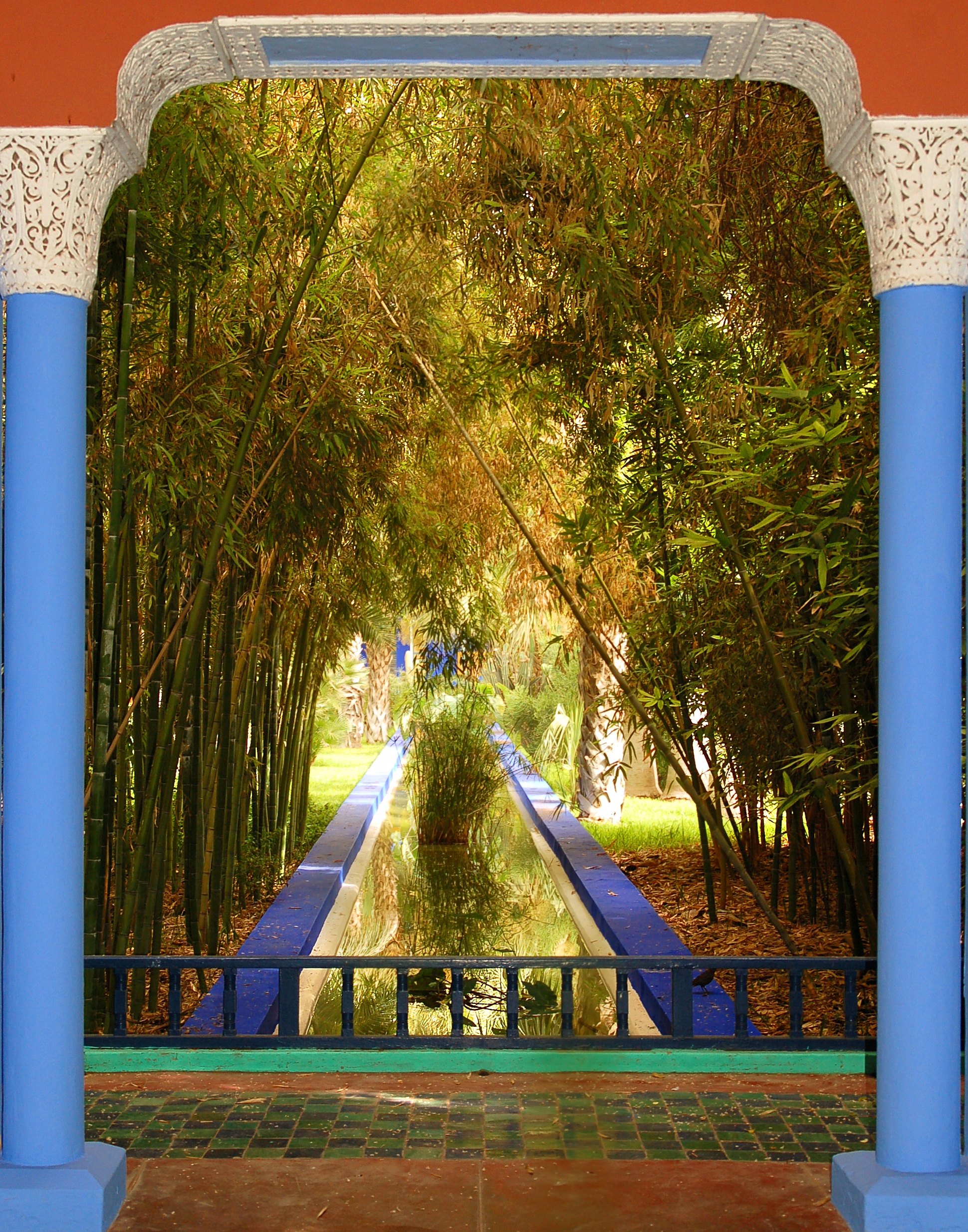 Maroc Marrakech city Majorelle garden